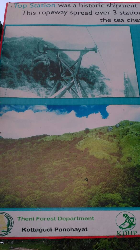 Top Station Information board